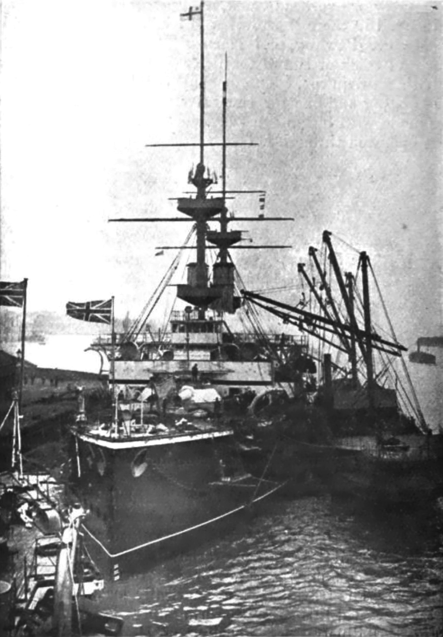 "Fig. 190 illustrates the coaling of H.M.S. Majestic with four Temperley patent portable transporters."